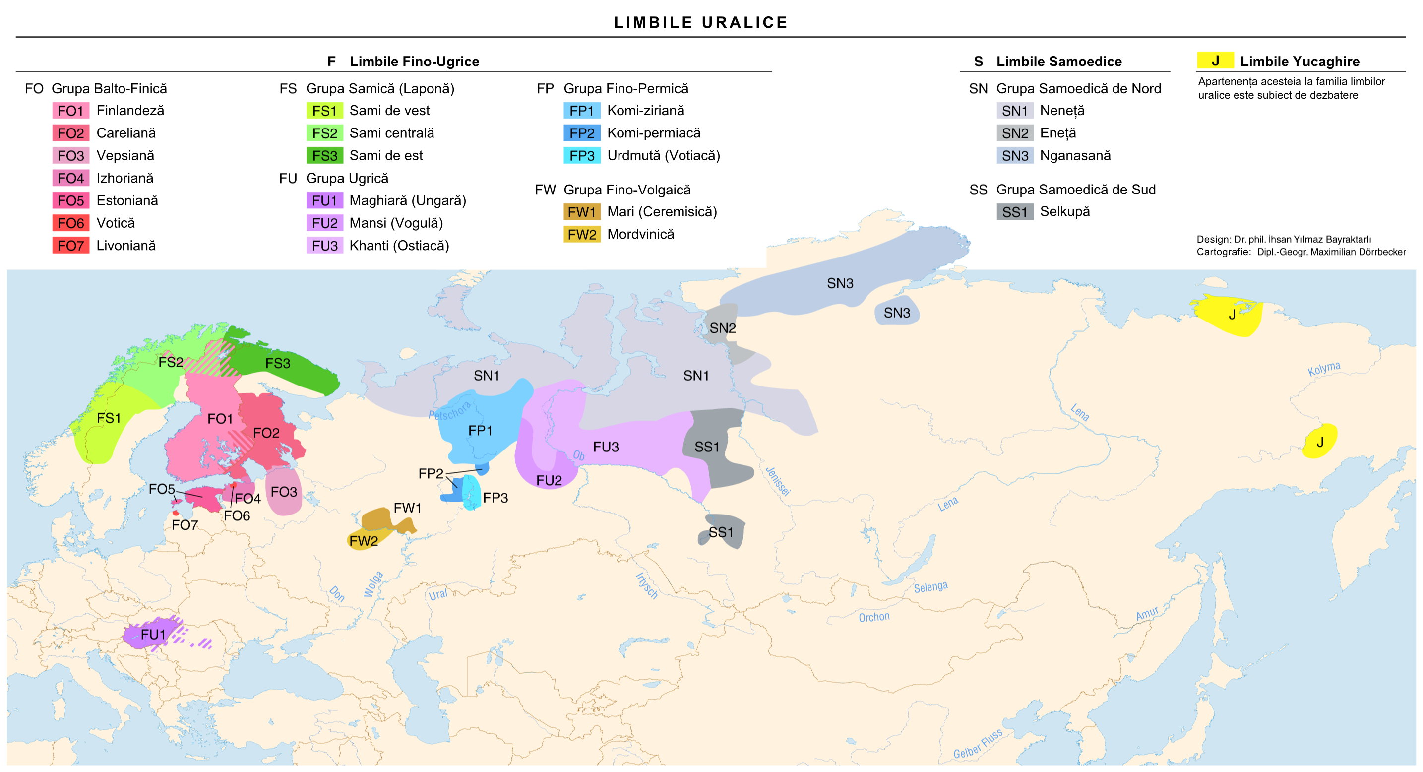 Linguistic maps of the Uralic languages